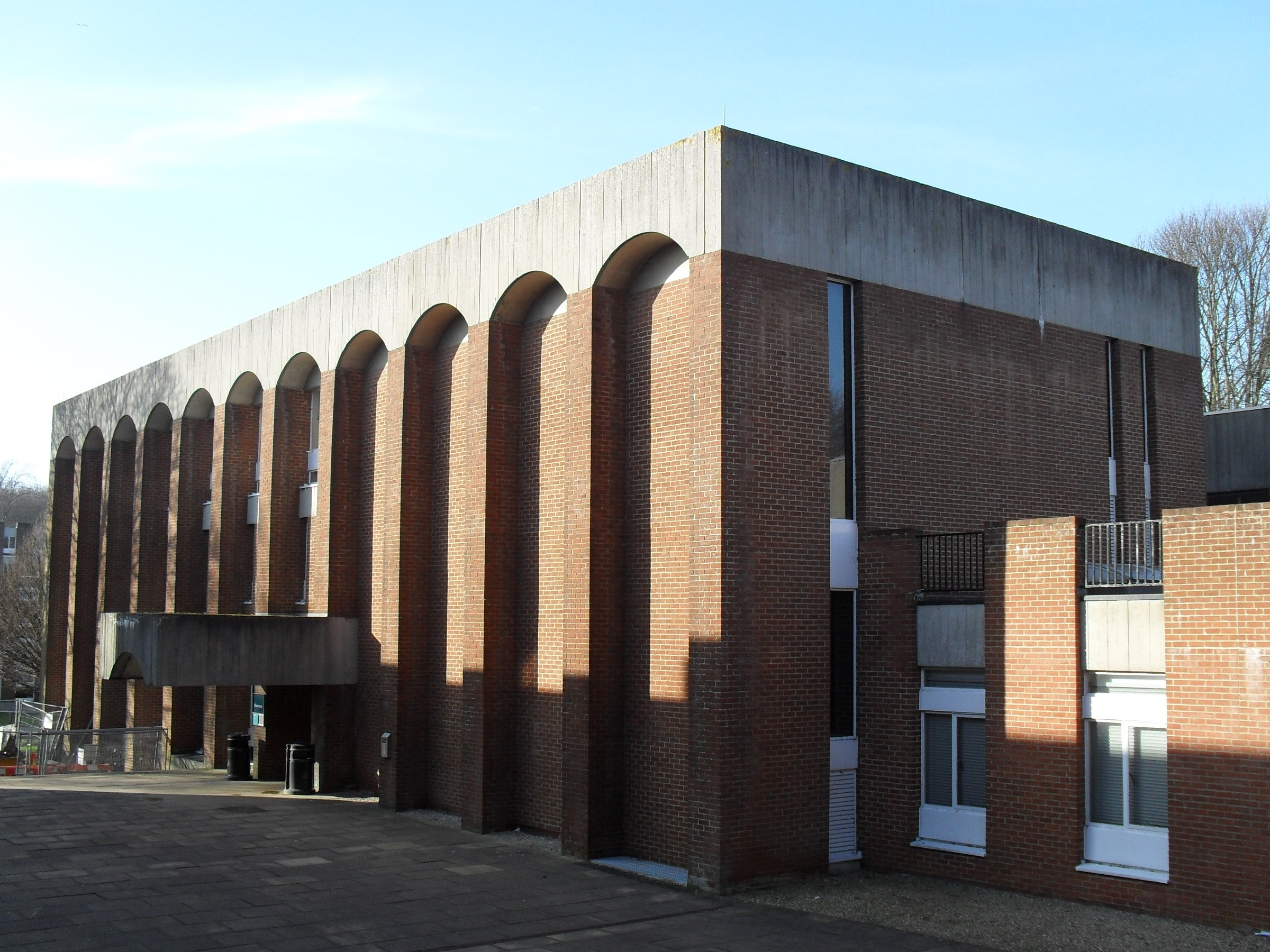 Shawcross Building, University of Sussex, City of Brighton and Hove, England. Built in 1964–66 by Sir Basil Spence for the engineering and applied sciences department. Listed at Grade II* by English Heritage (code 481386)